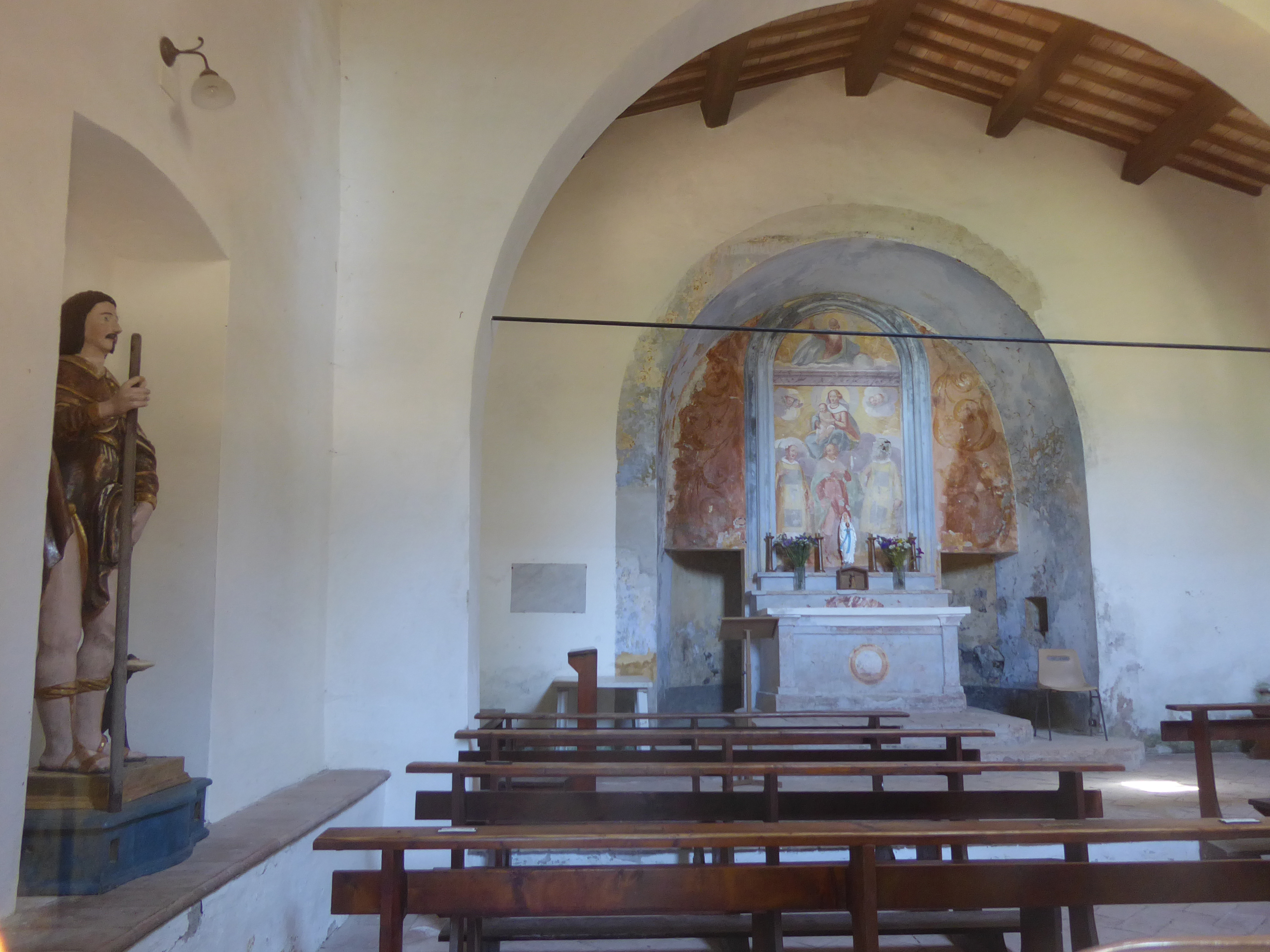 Sorano (province of Grosseto, Tuscany, Italy), Saint Roch church - Interior